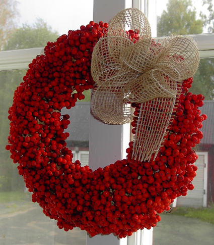 Wreath of Rowan berries (Sorbus aucuparia)